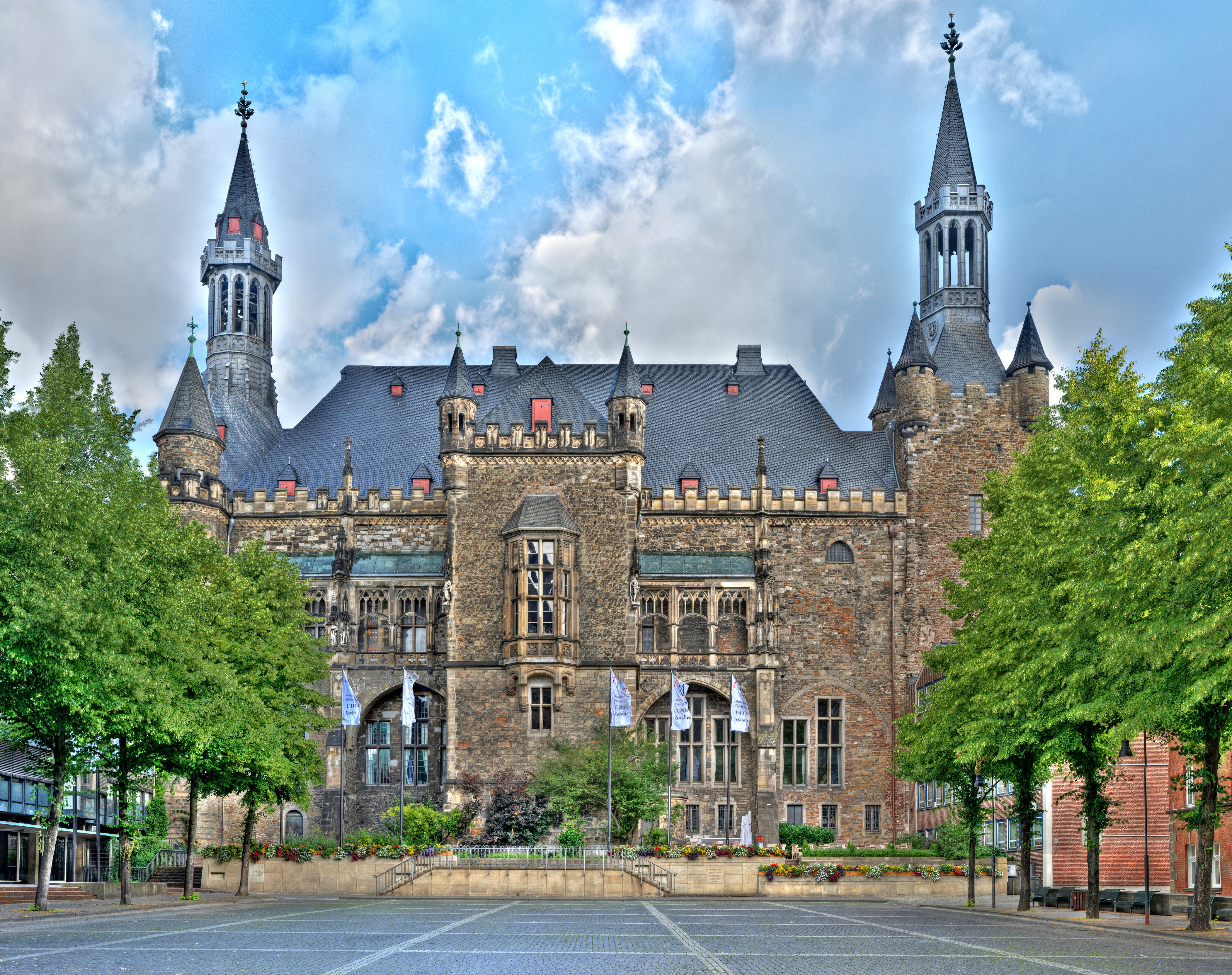 The Aachen City Hall viewed from South. This high resolution picture is made up of 39 single HDR images using PTGui.